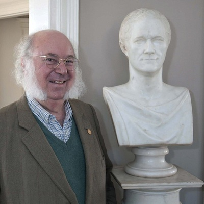 Myron Magnet with a bust of Alexander Hamilton at Hamilton Grange in New York City, 2013